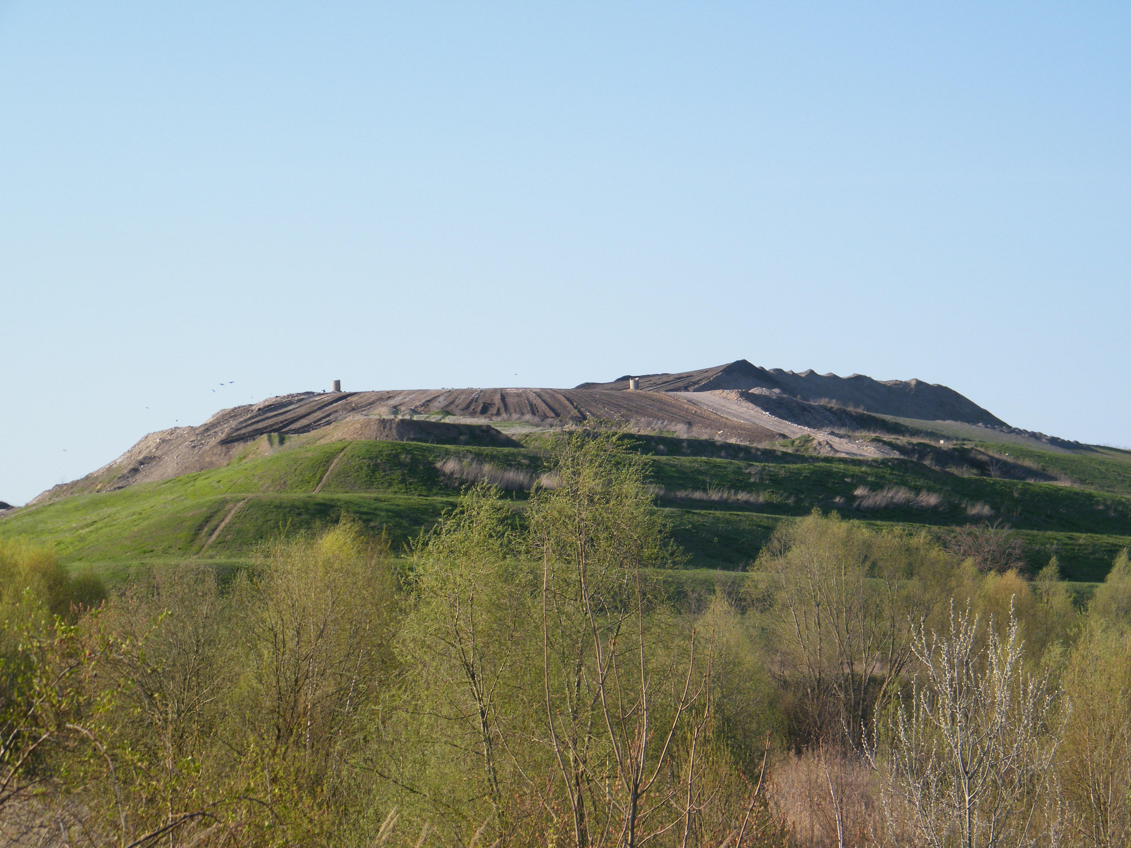 Depony hill Arkenberge, in the North of Berlin.